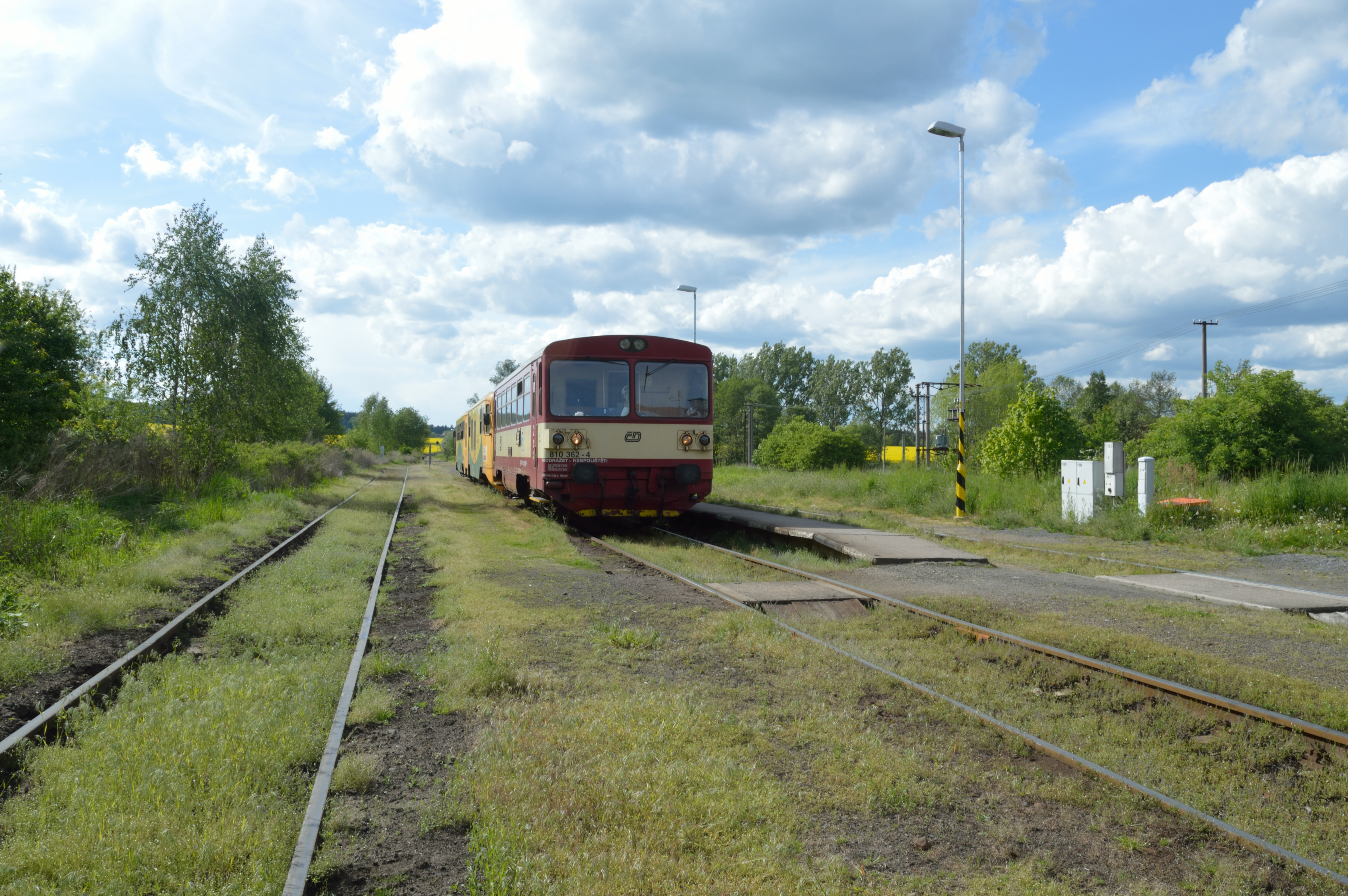 Change over from one DMU to another took part here at Mladějov v Čechách on 12 May 2014. To the rear is 814.098 which has arrived in on train Os9555, 14:43 Všetaty to Mladějov v Čechách. In front is single car 810.362 ready to depart with train Os16549, 16:23 Mladějov v Čechách to Lomnice nad Popelkou.